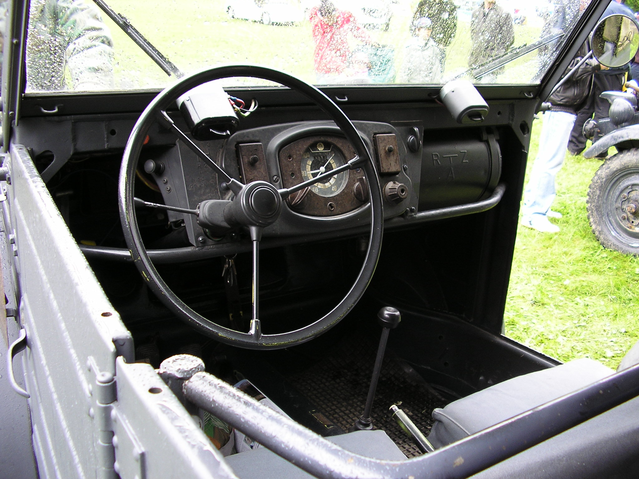 Interior of a 1942 VW Kübelwagen (type 82)..